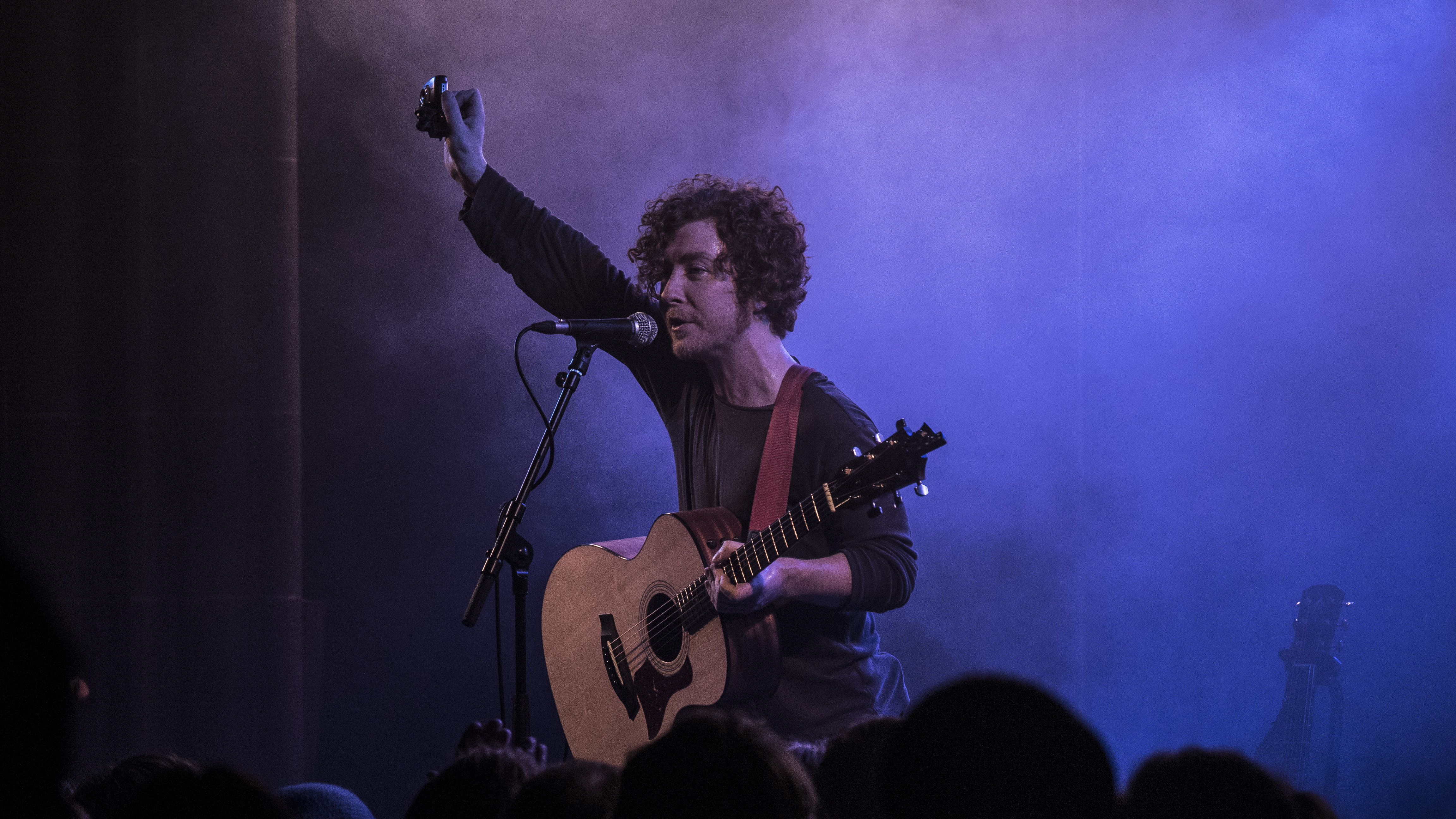 VerseChorusVerse - Tony Wright, Manchester Cathedral, 13th October 2015